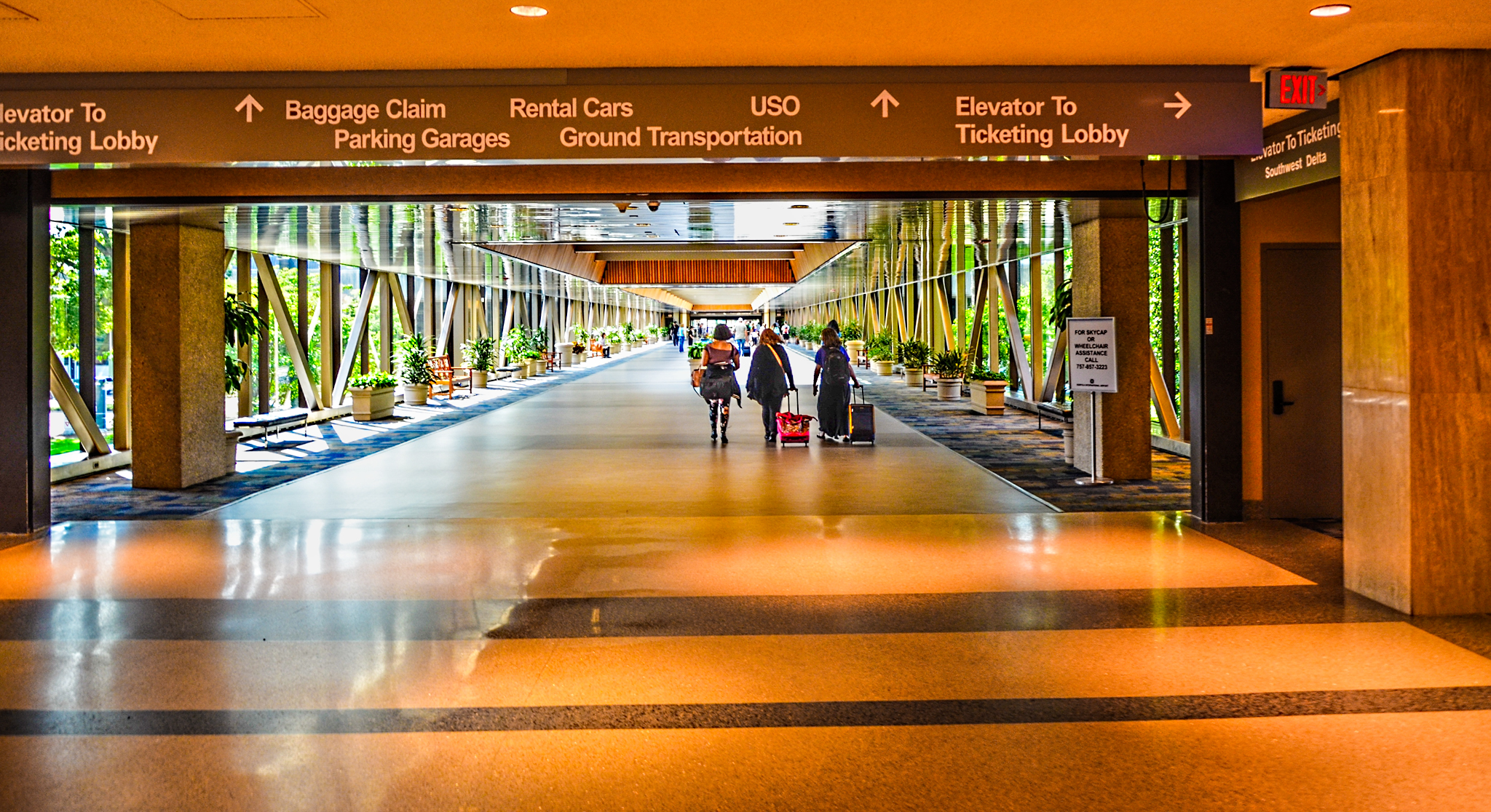 Norfolk International Airport (IATA: ORF, ICAO: KORF, FAA LID: ORF) Photo: TDelCoro July 12, 2018